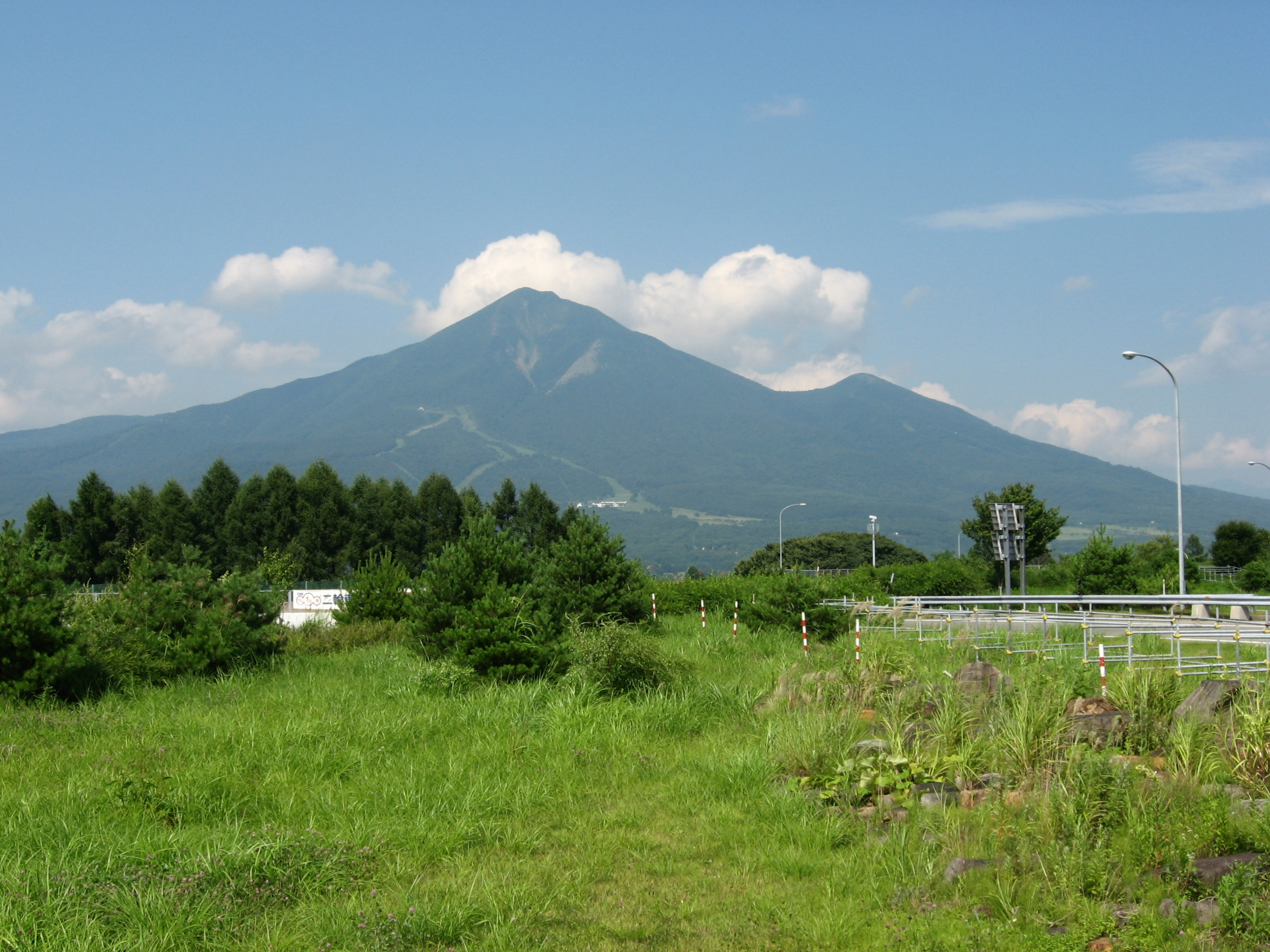 Mt.Bandai